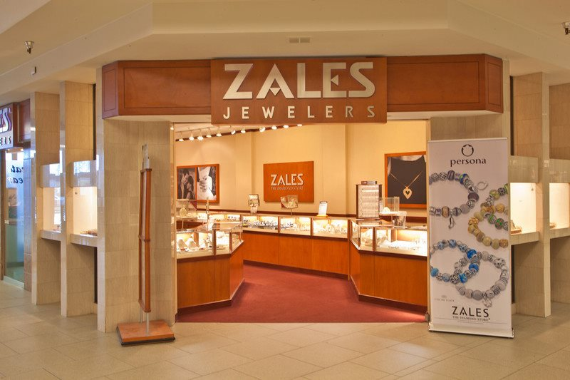 Zales